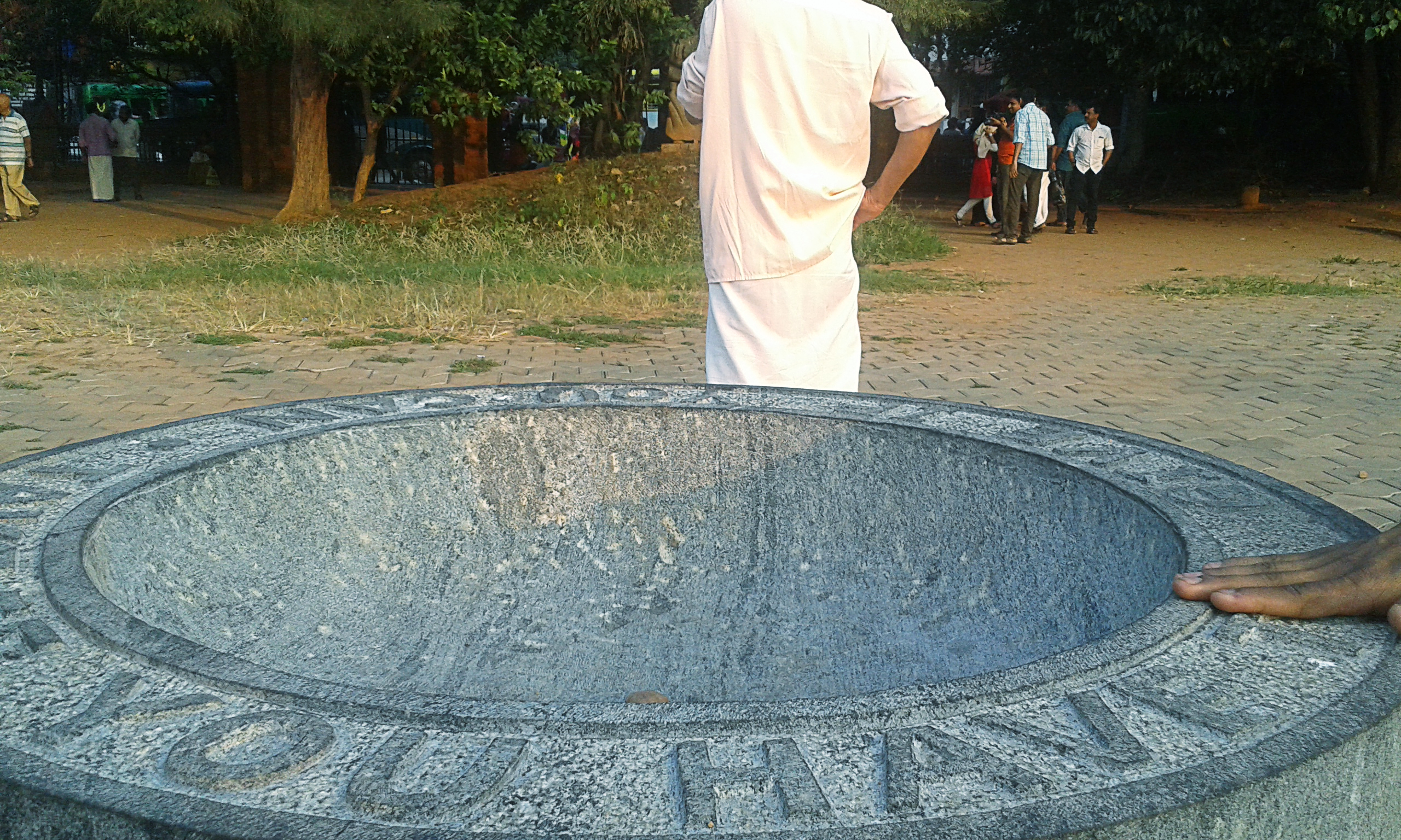 A sculpture at Mananchira by Polish sculptor Jacek Tylicki.